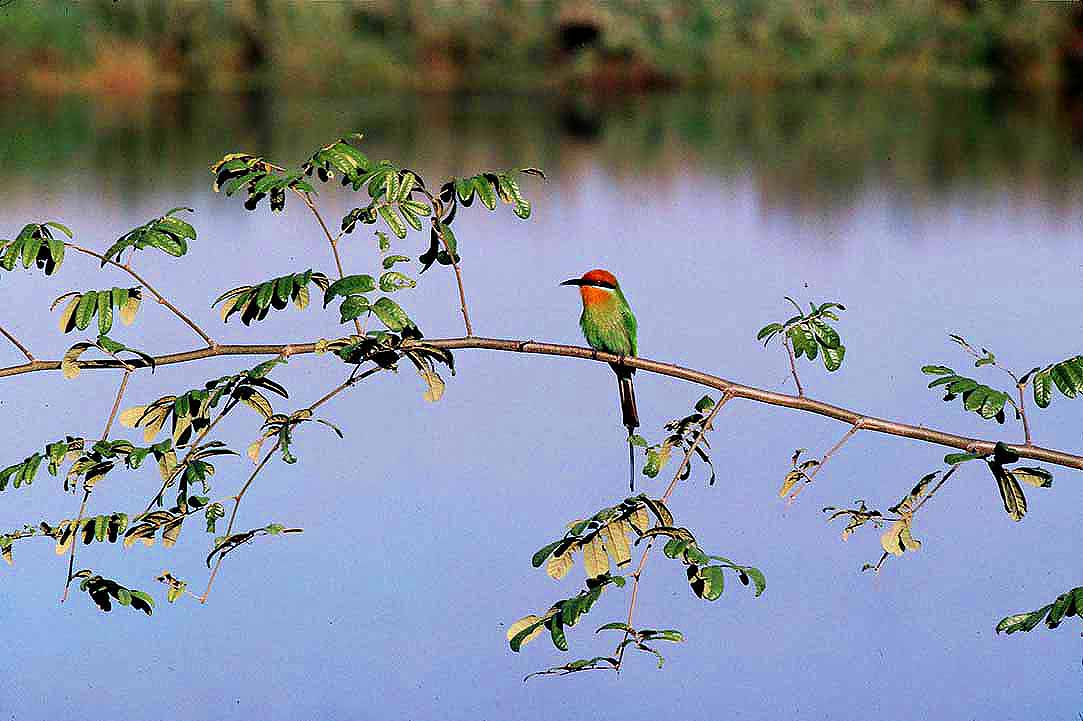 Boehm's bee-eater (Merops boehmi) in Malawi